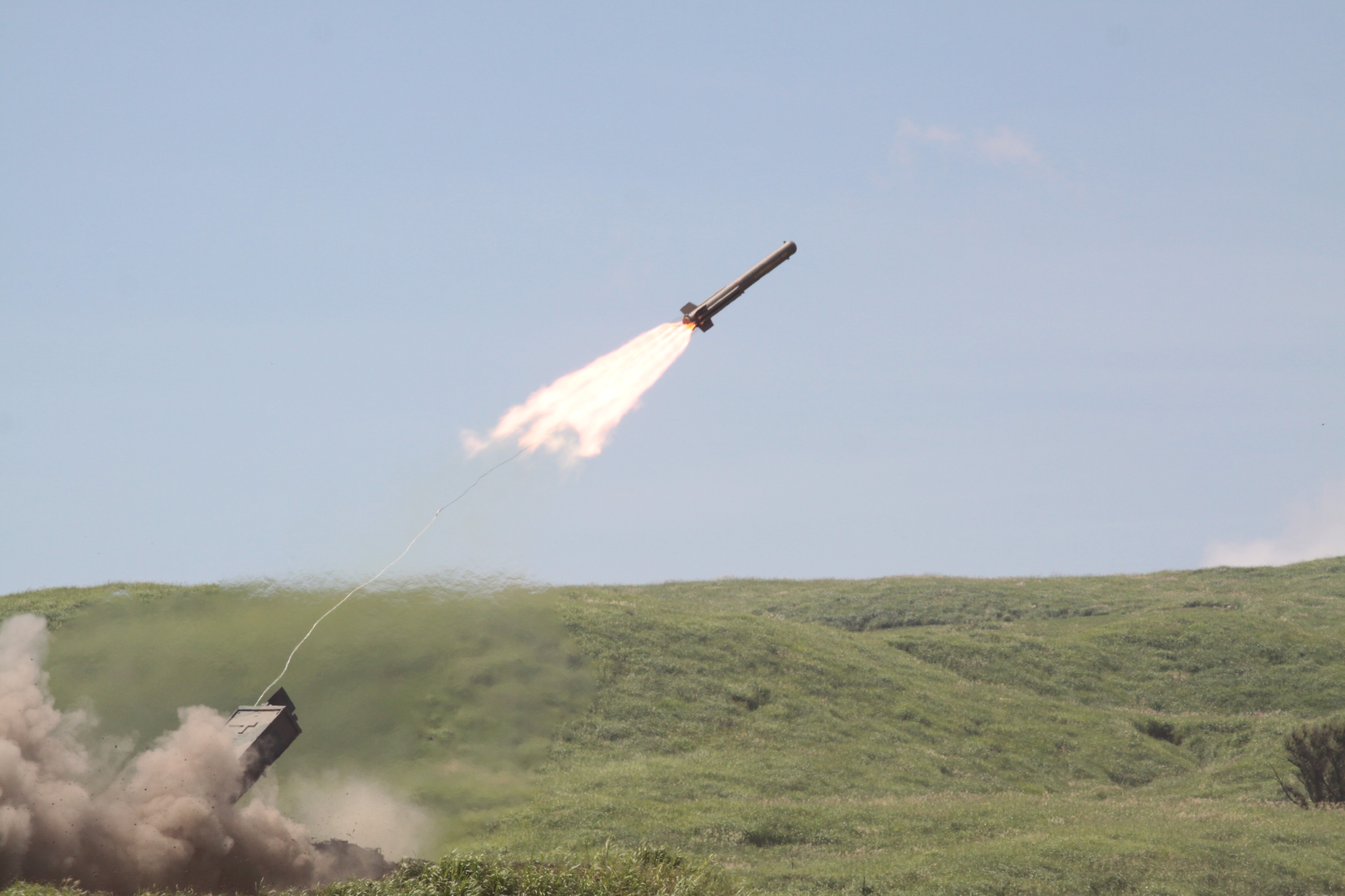 JGSDF Type92_Mine_clearing_vehicle launch its mine clearing line charges in Fuji exercise 2010.